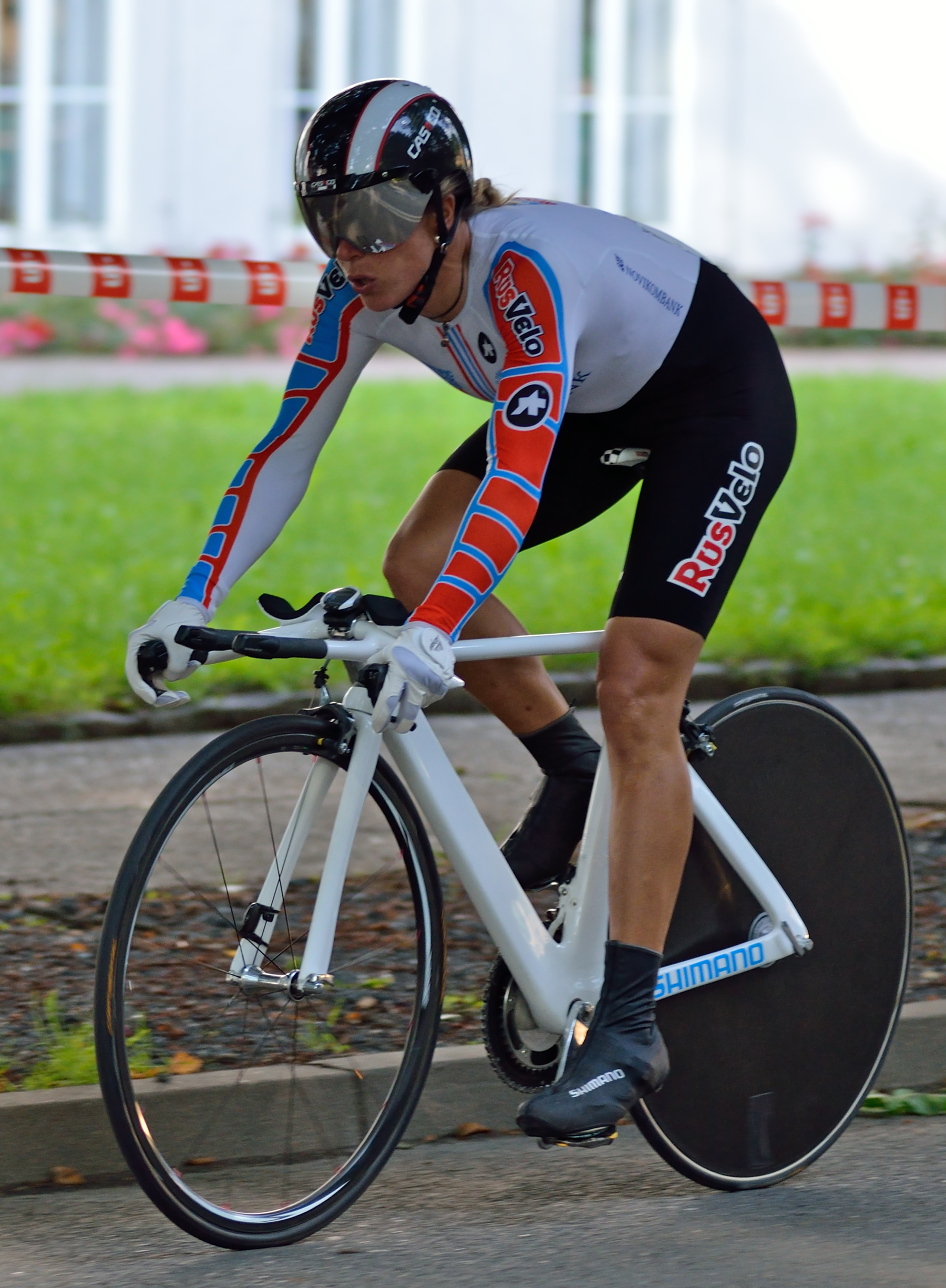 Hanka Kupfernagel from the RusVelo team during the Women's Tour of Thuringia 2012 in Zwickau, Germany.